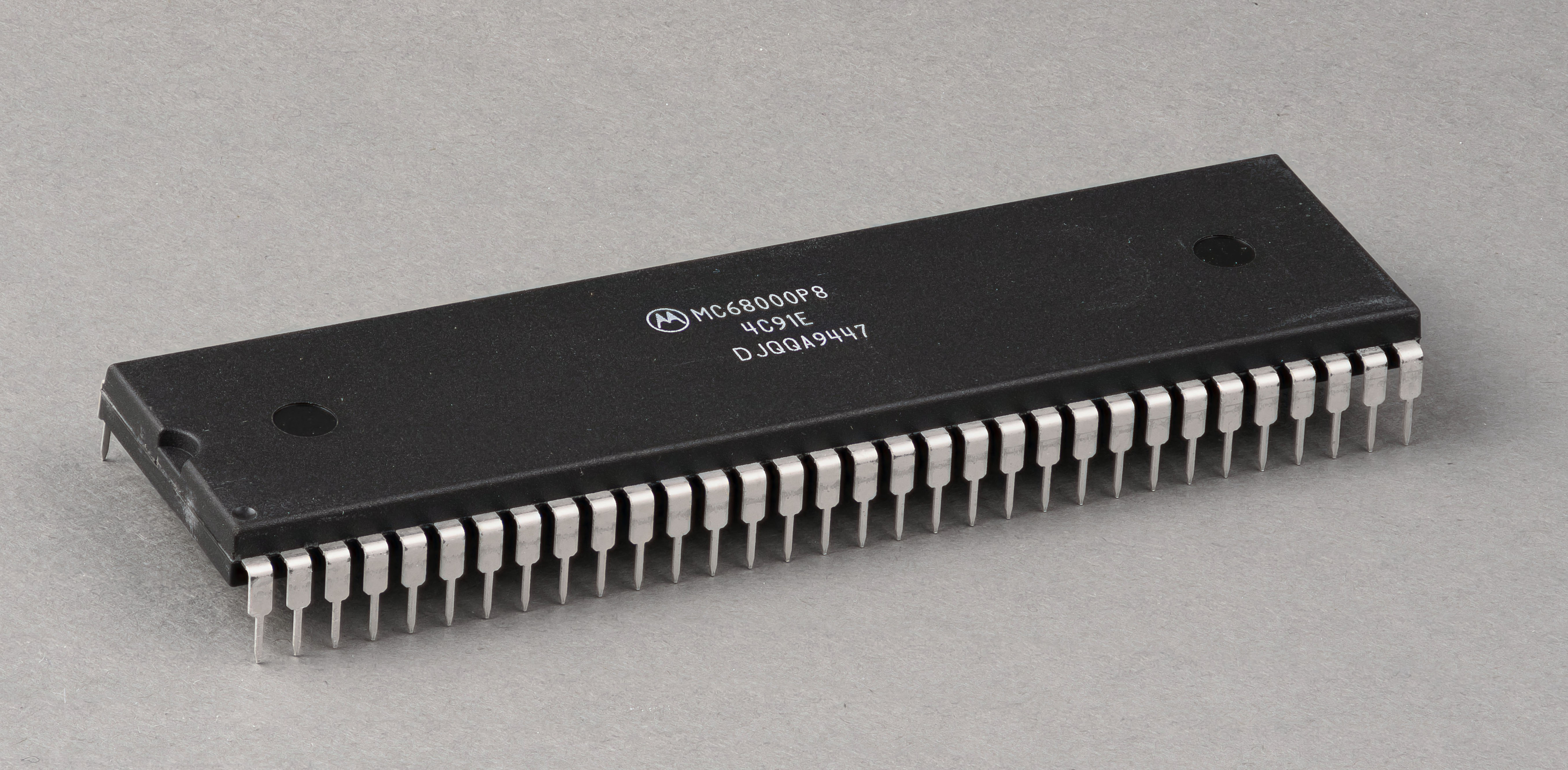 Motorola MC68000P8 CPU, 64-pin DIP.